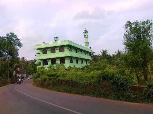 renovated Ponmundam Juma Masjid on Malappuram Ponnani Road, India.